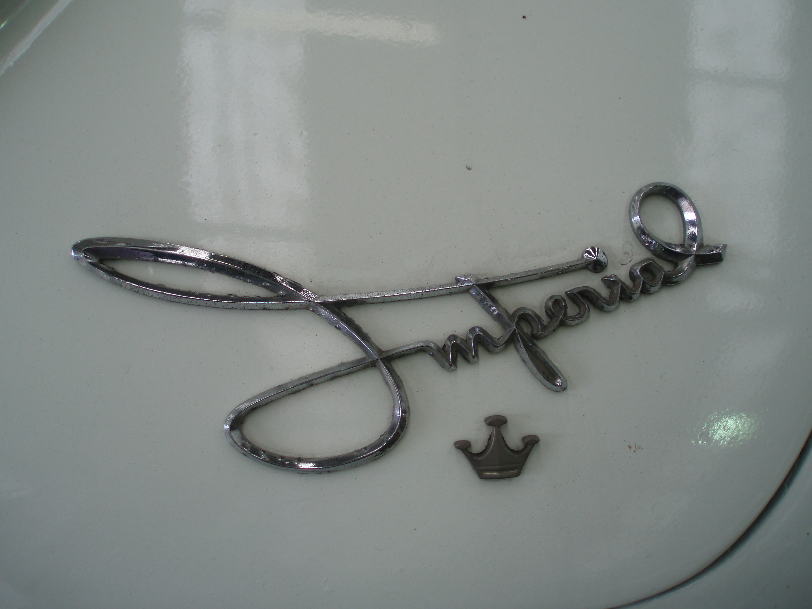 1958 Imperial bootlid badge. Taken at the 2006 New South Wales All Chrysler Day, held at Fairfield Showground, Prairiewood, Sydney.